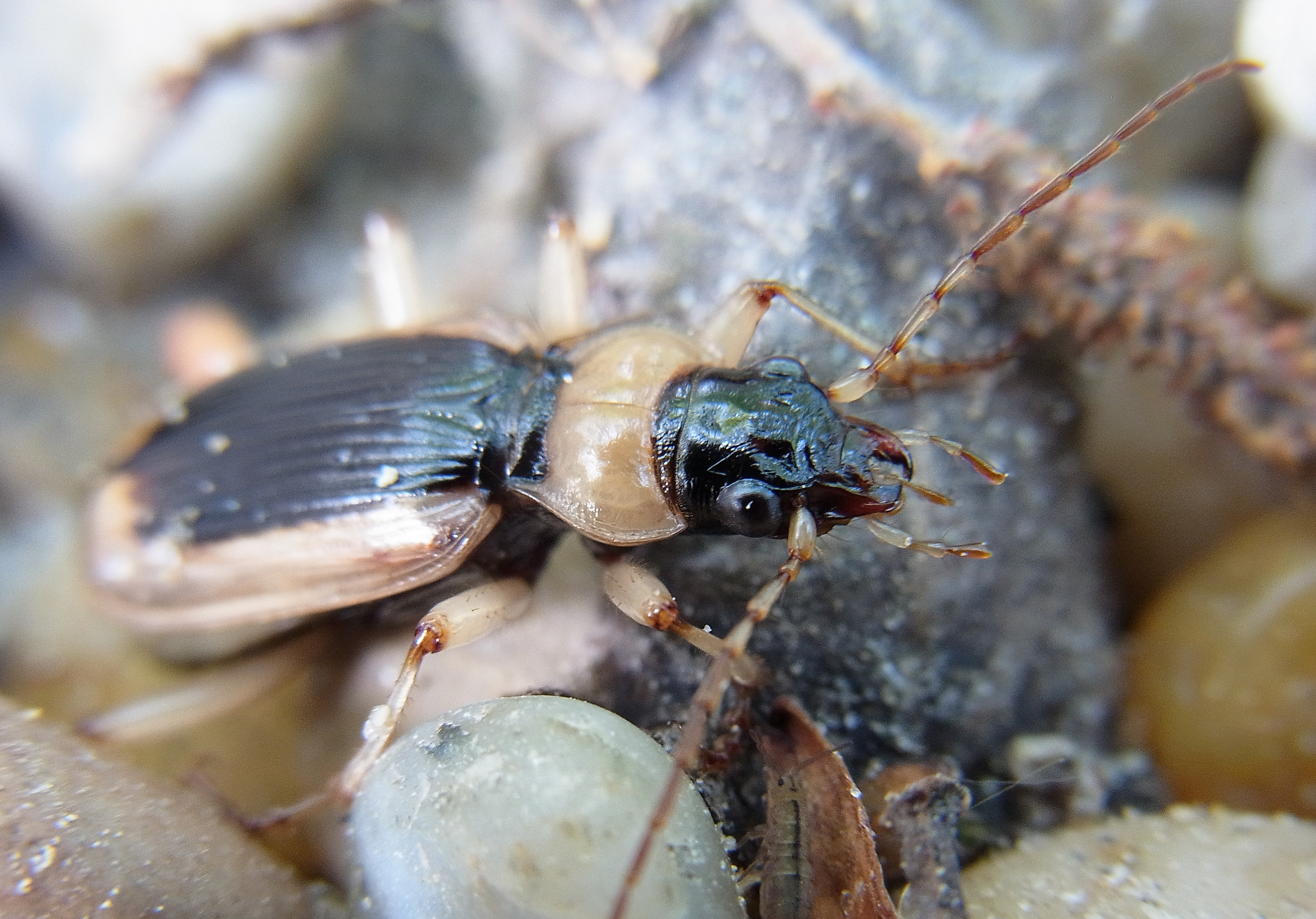 Nebria livida from Austria, near Maria Ellend at riverside of Danubius at 2015-05-20